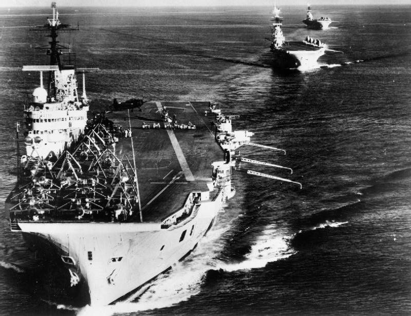 Three of the five British aircraft carriers involved in the Suez operation: HMS Eagle (R05) leads HMS Bulwark (R08) and HMS Albion (R07).